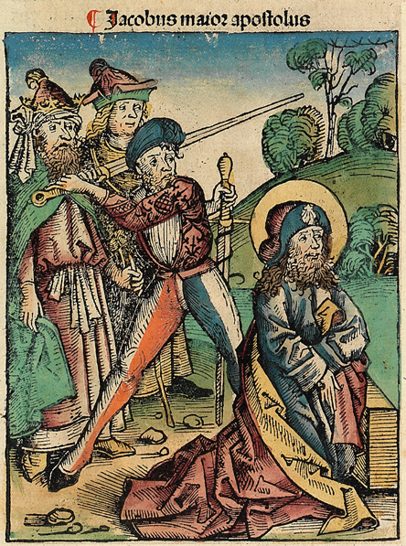 This is a part of a scan of an historical document: Title: Schedelsche Weltchronik or Nuremberg Chronicle